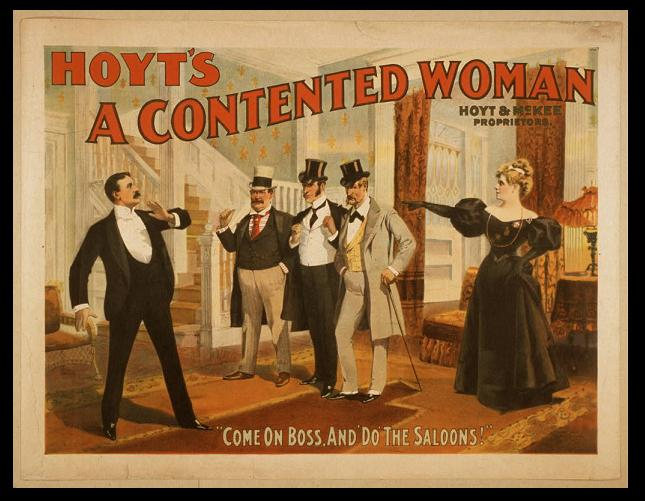 Hoyt's A Contented Woman poster